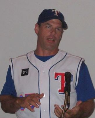 A picture I took of former pitcher John Wetteland on July 10, 2005.